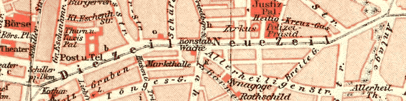 Frankfurt city map detail, early 1890s. The map shows Frankfurt's main commercial street, the Zeil.